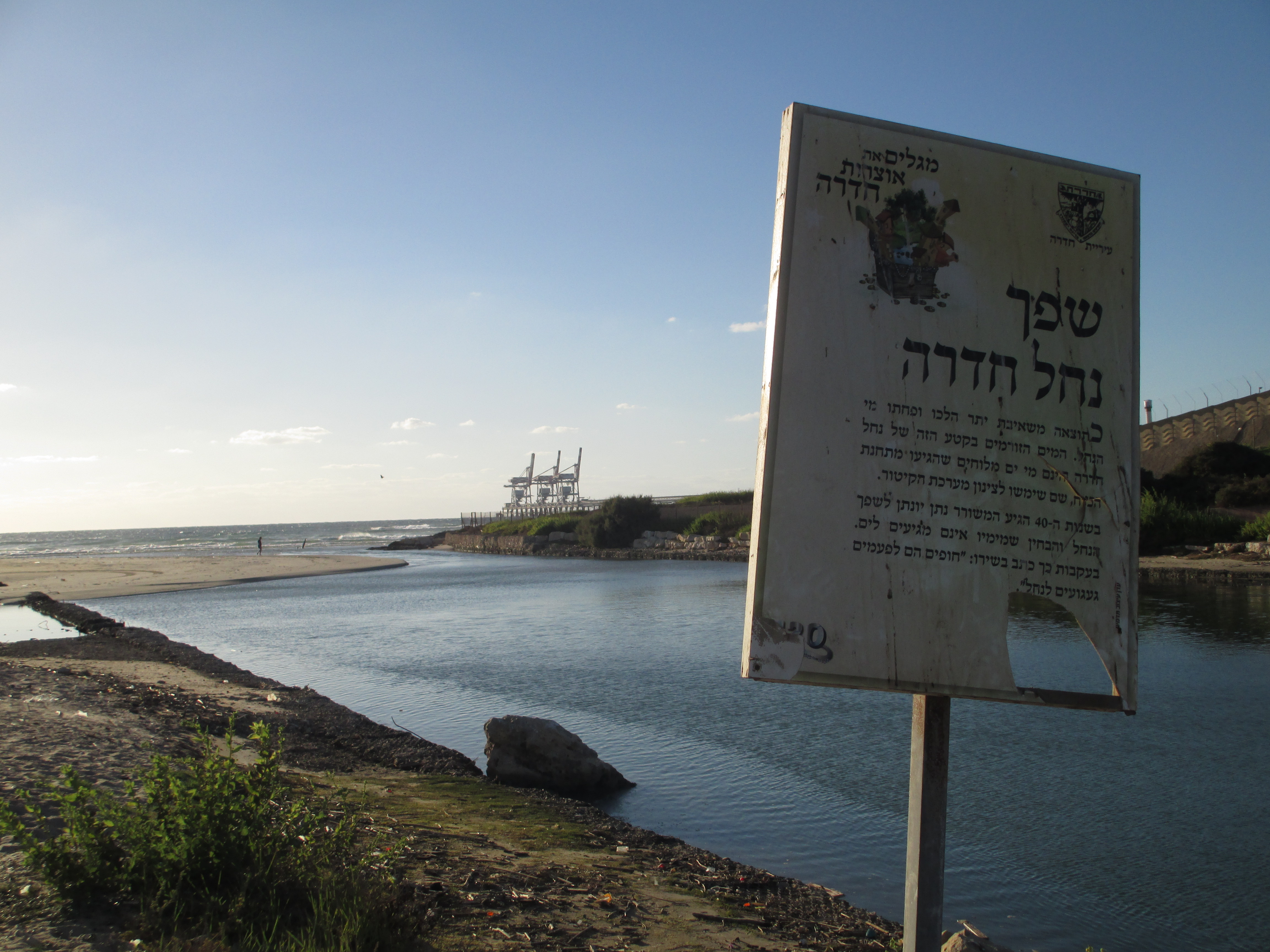 Hadera River Park